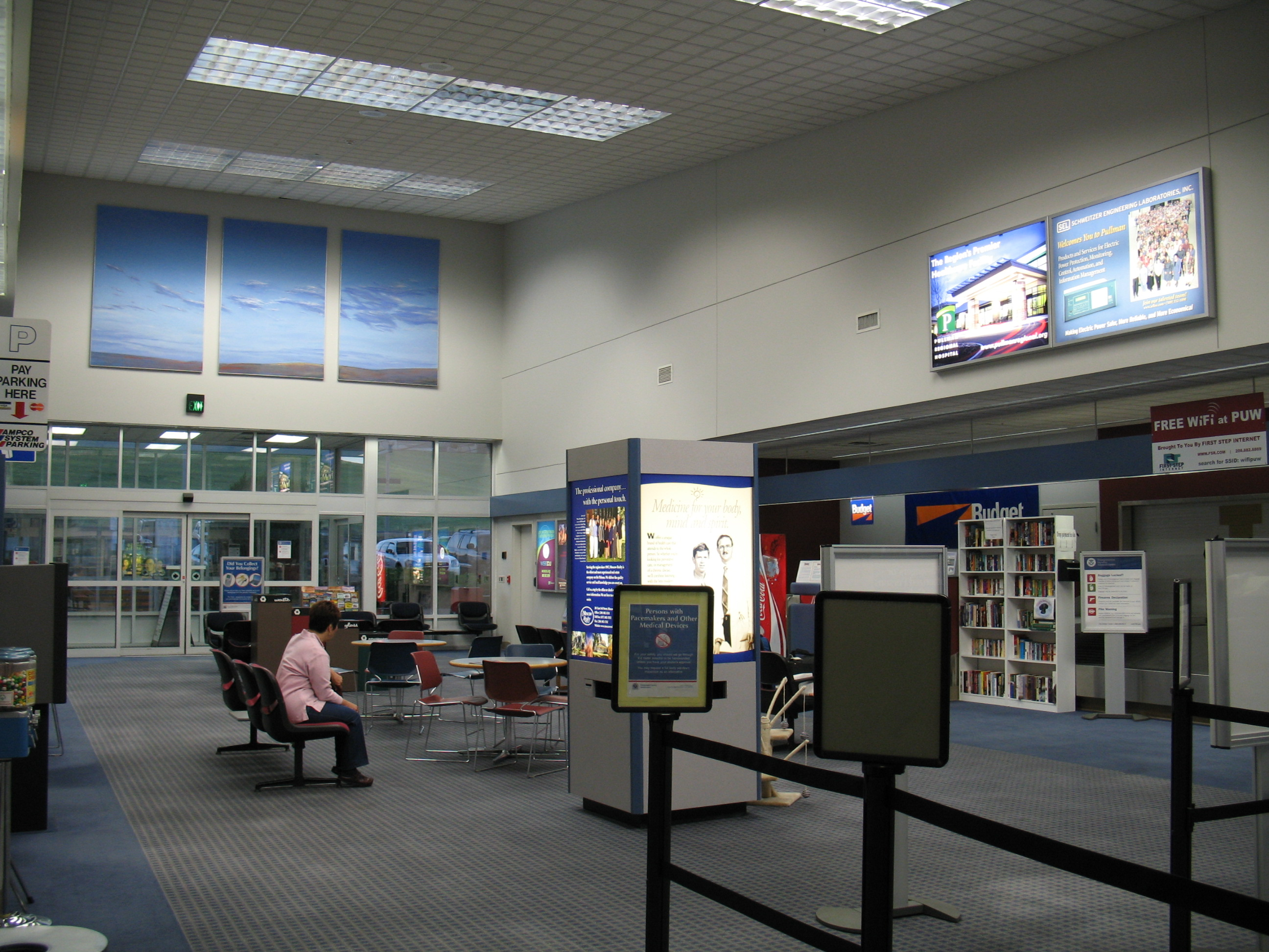 The main terminal waiting area at Pullman-Moscow Regional Airport.